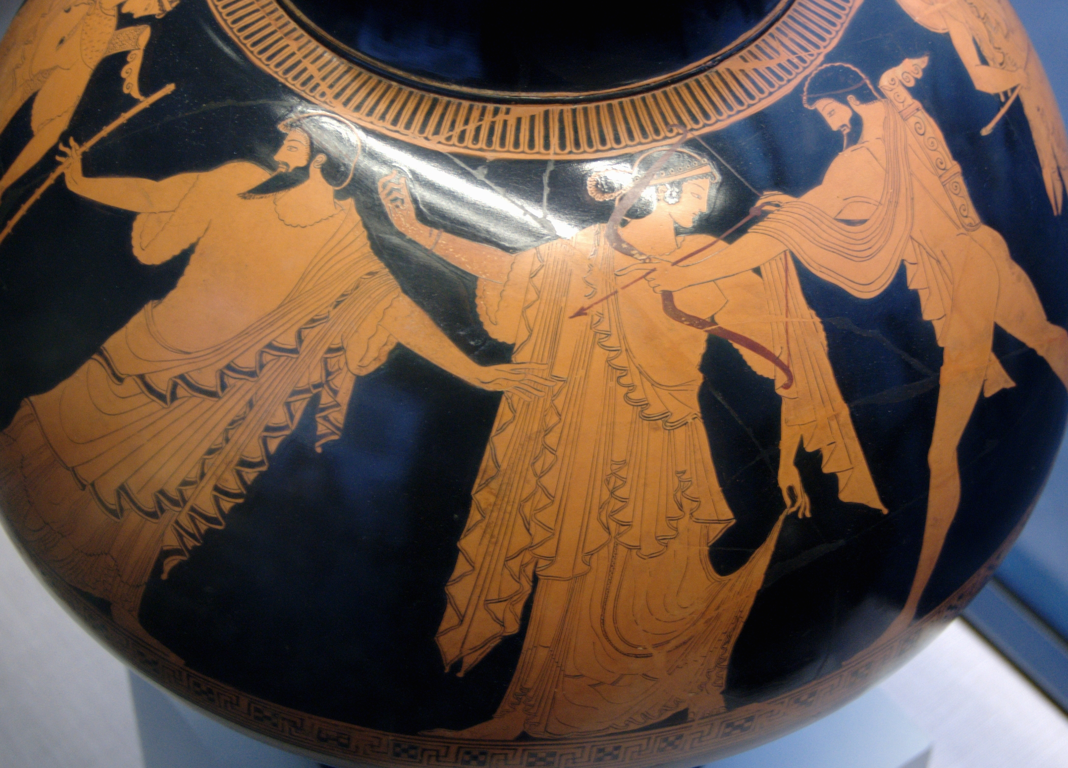 Idas and Marpessa are separated by Zeus of Apollo (left, non visible). Attic red-figure psykter, ca. 480 BC. From Agrigento.